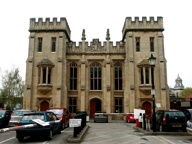 Boston Magistrates Court. Sits facing the Church of St Botolph.